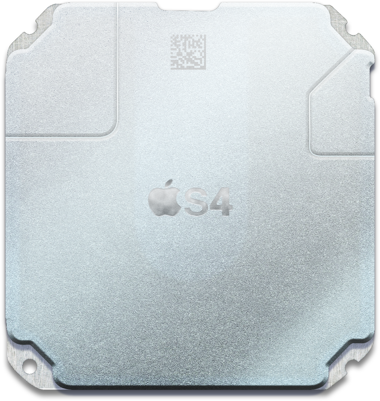 An illustration of Apple's S4 integrated computer for the Apple Watch Series 4 with its resin encapsulation showing. Inspiration for this picture comes from Apple's promo videos for the Apple Watch 4 and iFixit's Apple Watch 4 teardown